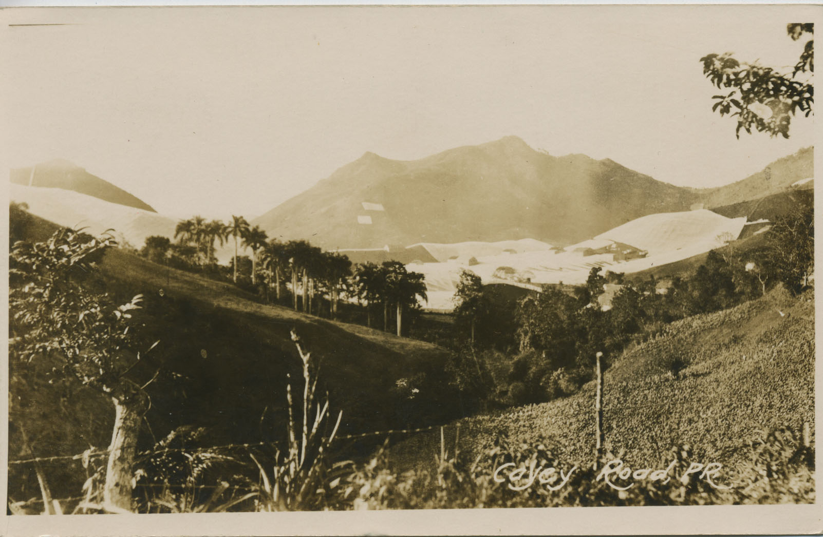 Attilio Moscioni, Real-photo postcard. Gleach/Santiago-Irizarry Collection